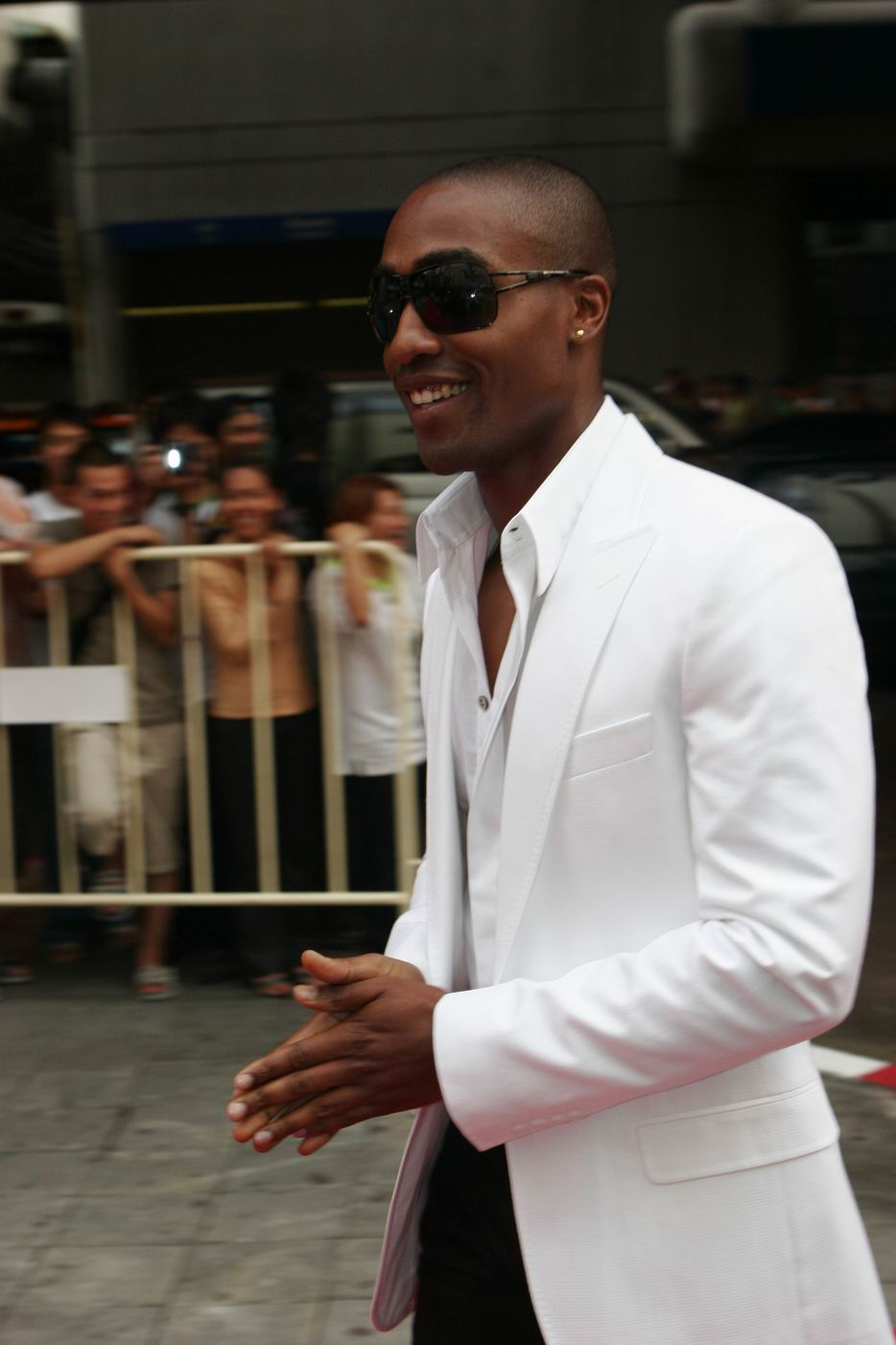 Simon Webbe on the red carpet MTV Asia Awards 2006, Bangkok, Thailand